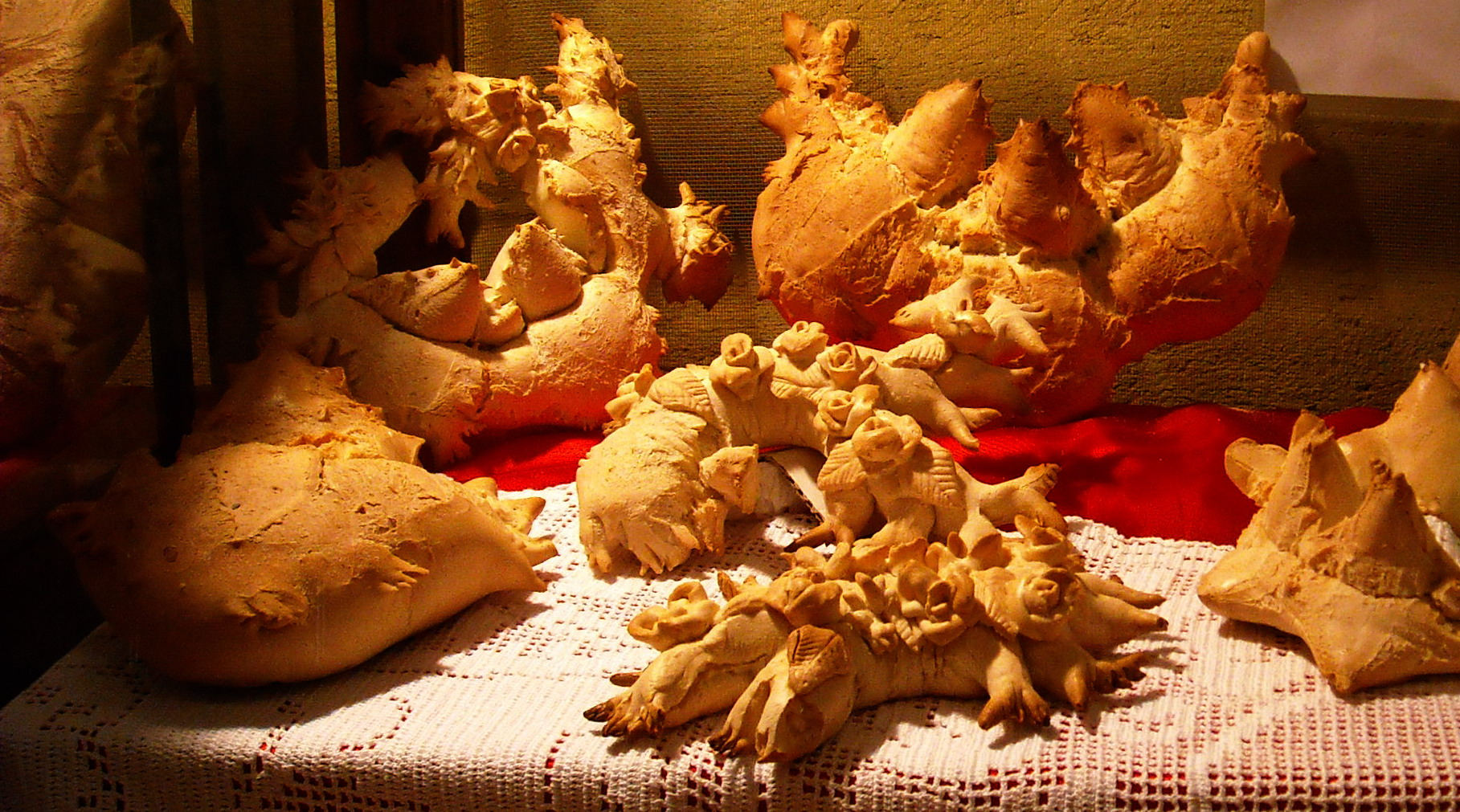 Traditional sardinian bread Villaurbana Oristano